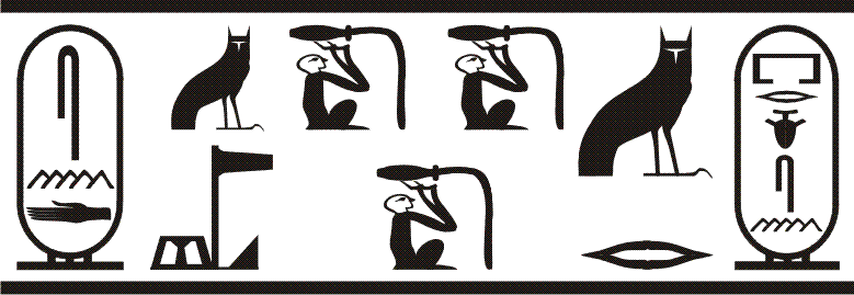 false door inscription of the high priest Shery mentioning the king´s names Peribsen and Senedj